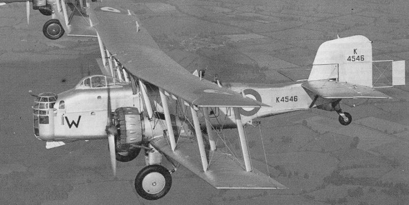 photo originally taken by a British government employee; image found on: [1]